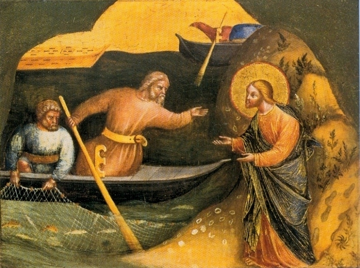 Lorenzo_Veneziano,_Calling_of_the_Apostles_Peter_and_Andrew._1370_Staatliche_Museen,_Berlin